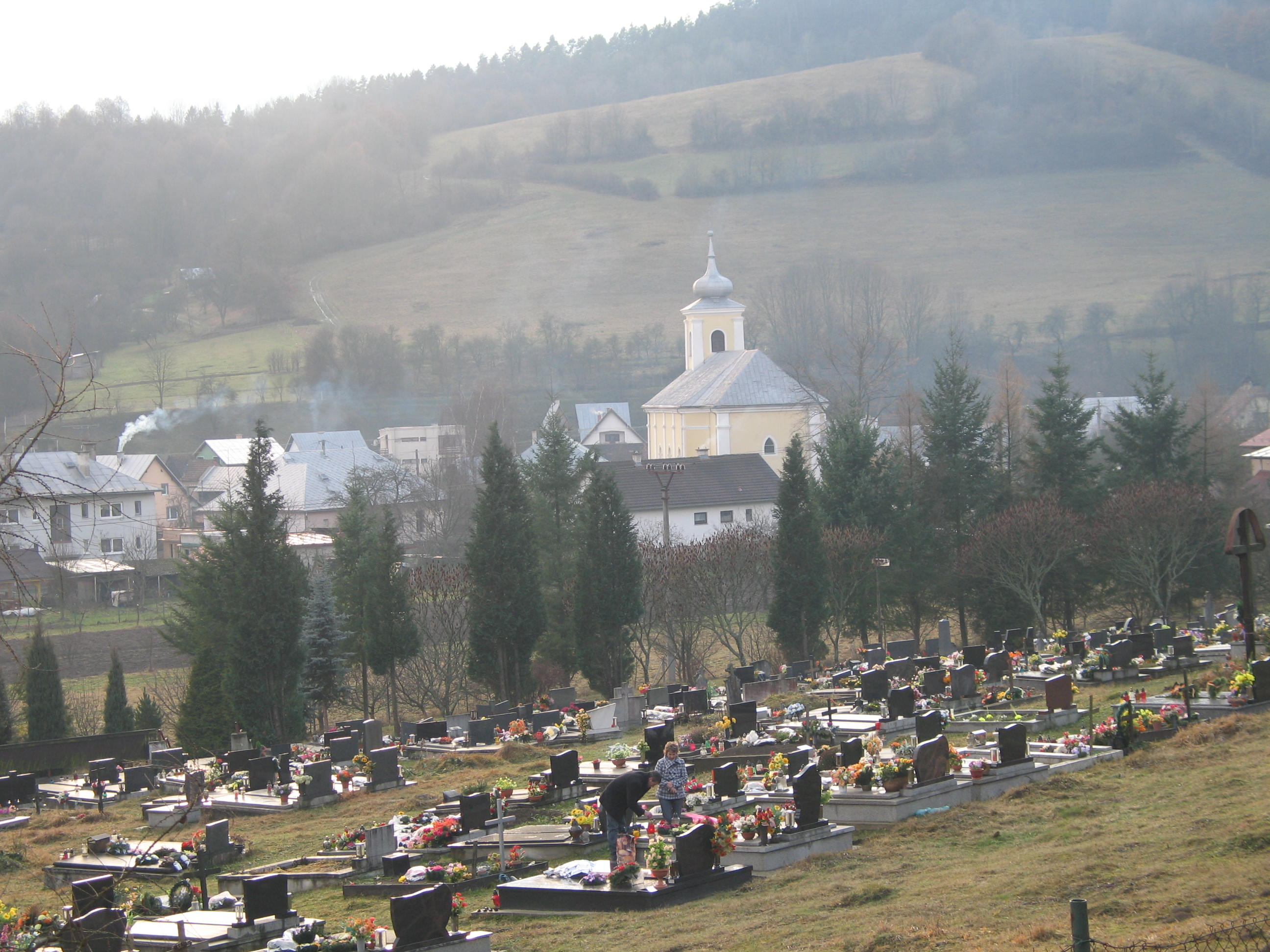 church and cemetery in Petrovice